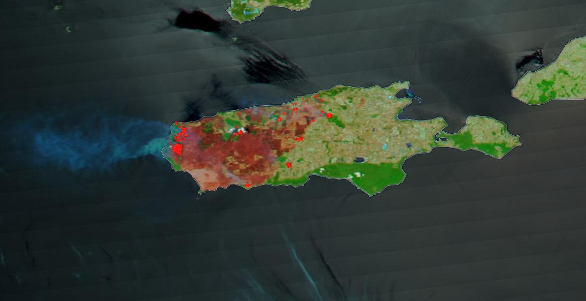 Kangaroo Island on 7 January 2020 with burn scars caused by bushfires, captured by Terra satellite and enhanced by using correction reflectance bands on the MODIS.